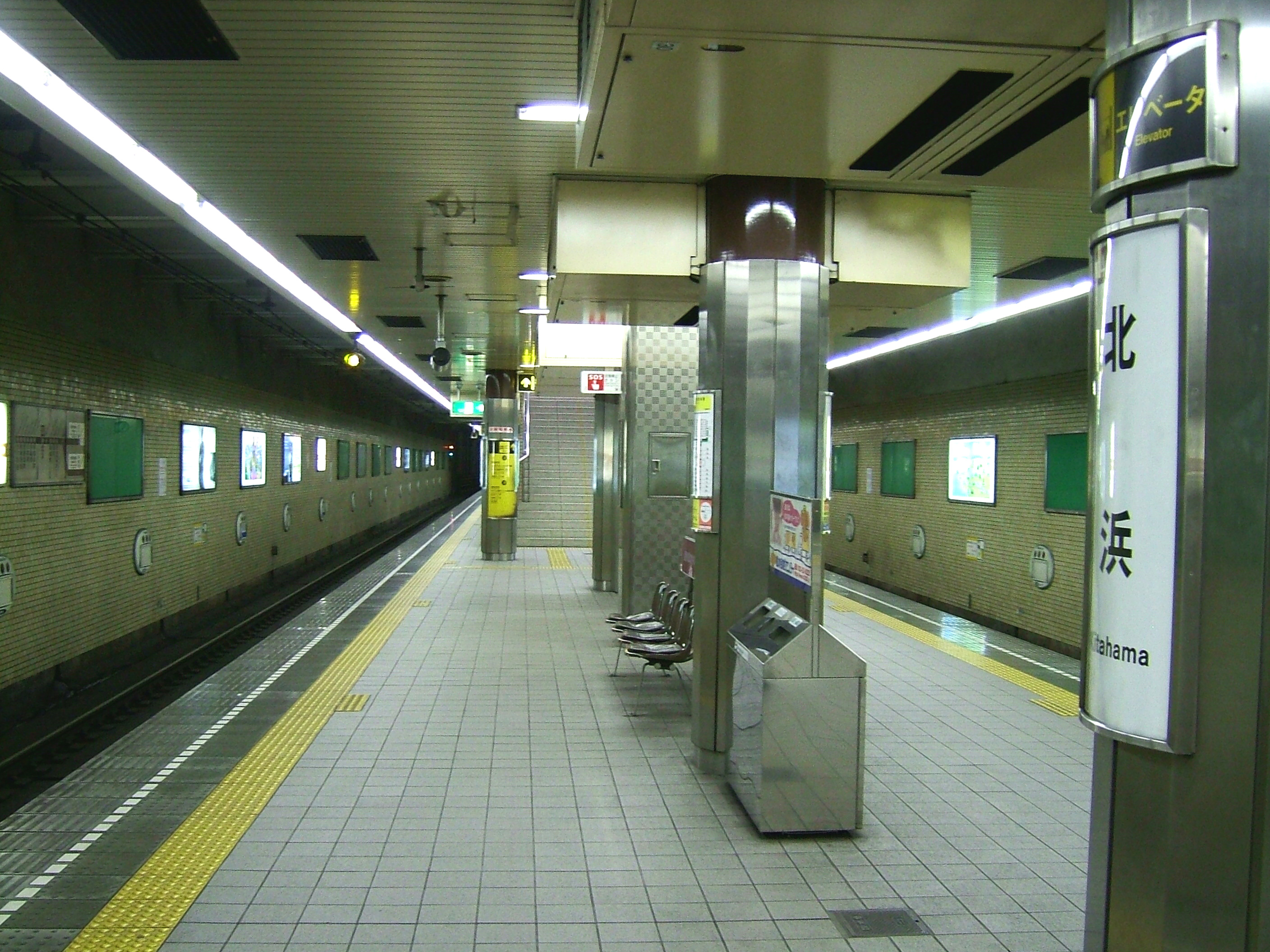 The platform at Kitahama Station on the Sakaisuji Line